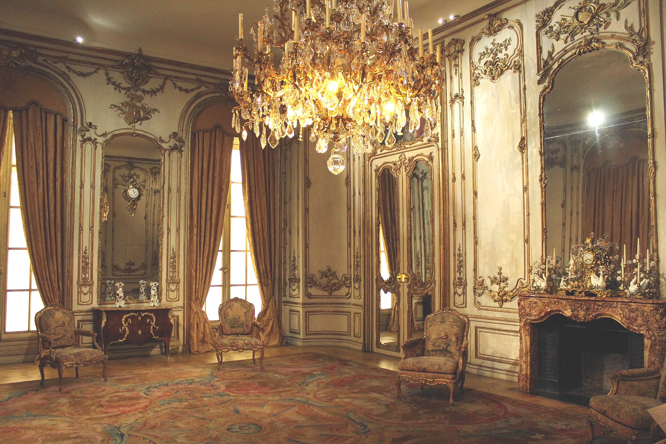 Lisbon, Museum Nacional de Arte Antiga, banquet hall